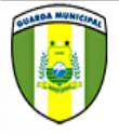 Coat of arms of Municipal Guard – Maracanau - Ceara State - Brazil